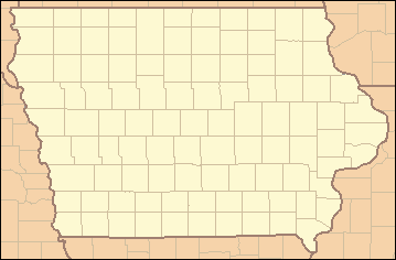 Locator Map of Iowa, United States